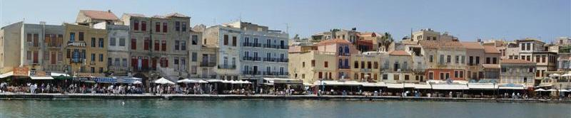 Chania Port, Crete Greece